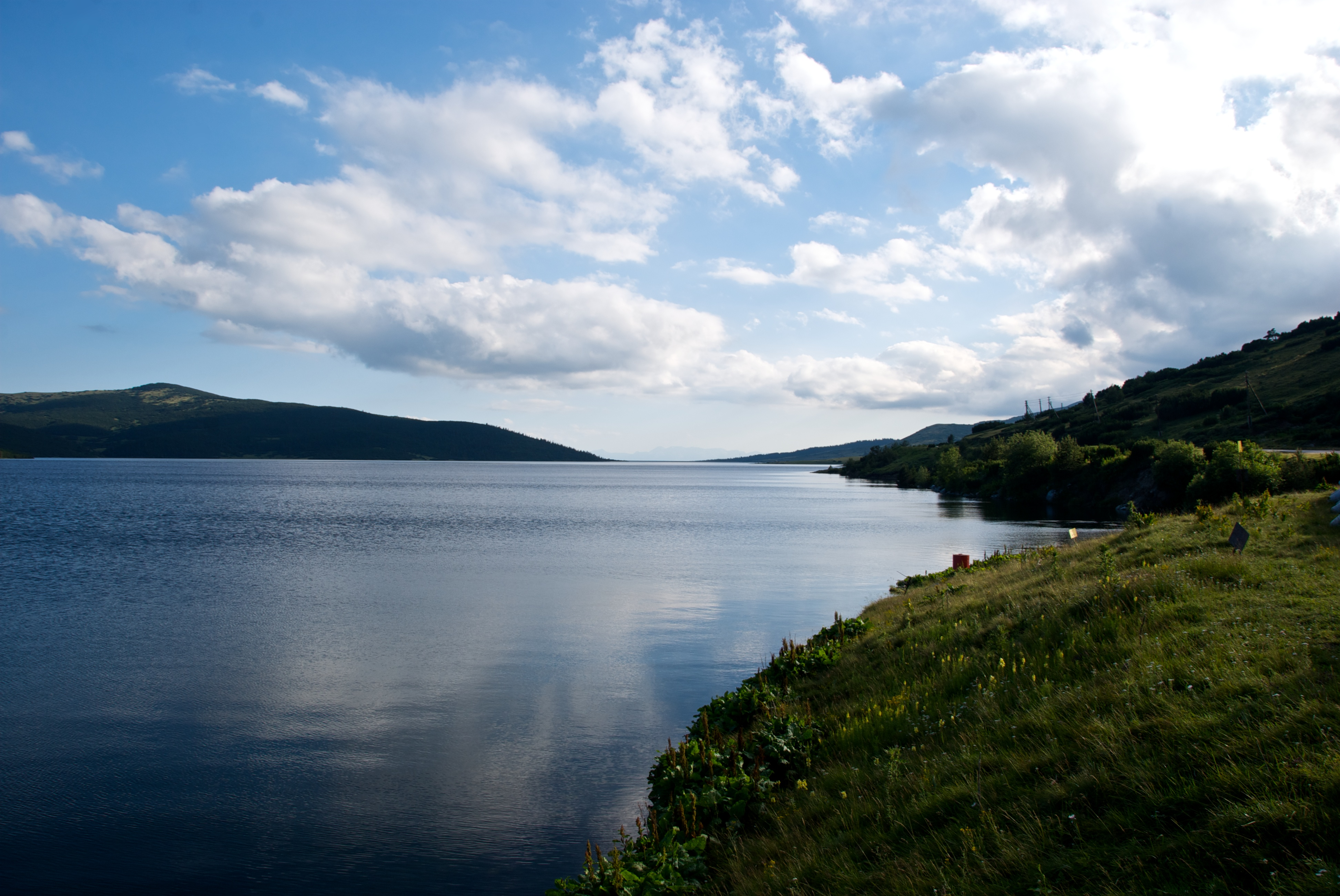 Lake Belmeken, in the Rila mountains, Bulgaria